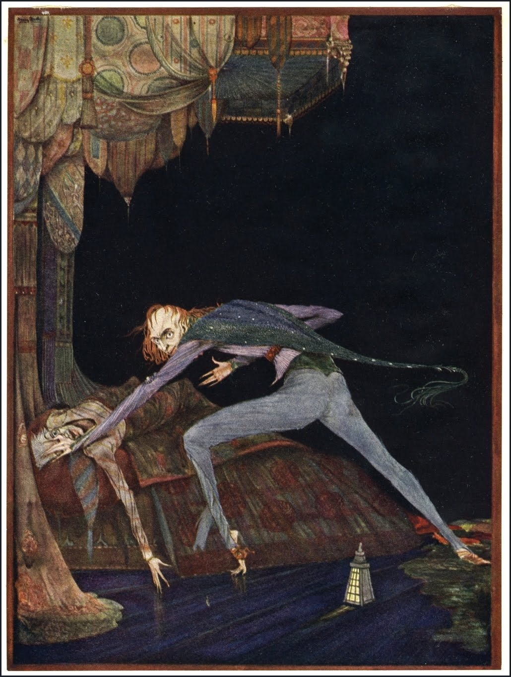 Frontispiece He shrieked once - once only. (Illustration for Tales of Mystery and Imagination by Edgar Allan Poe.)